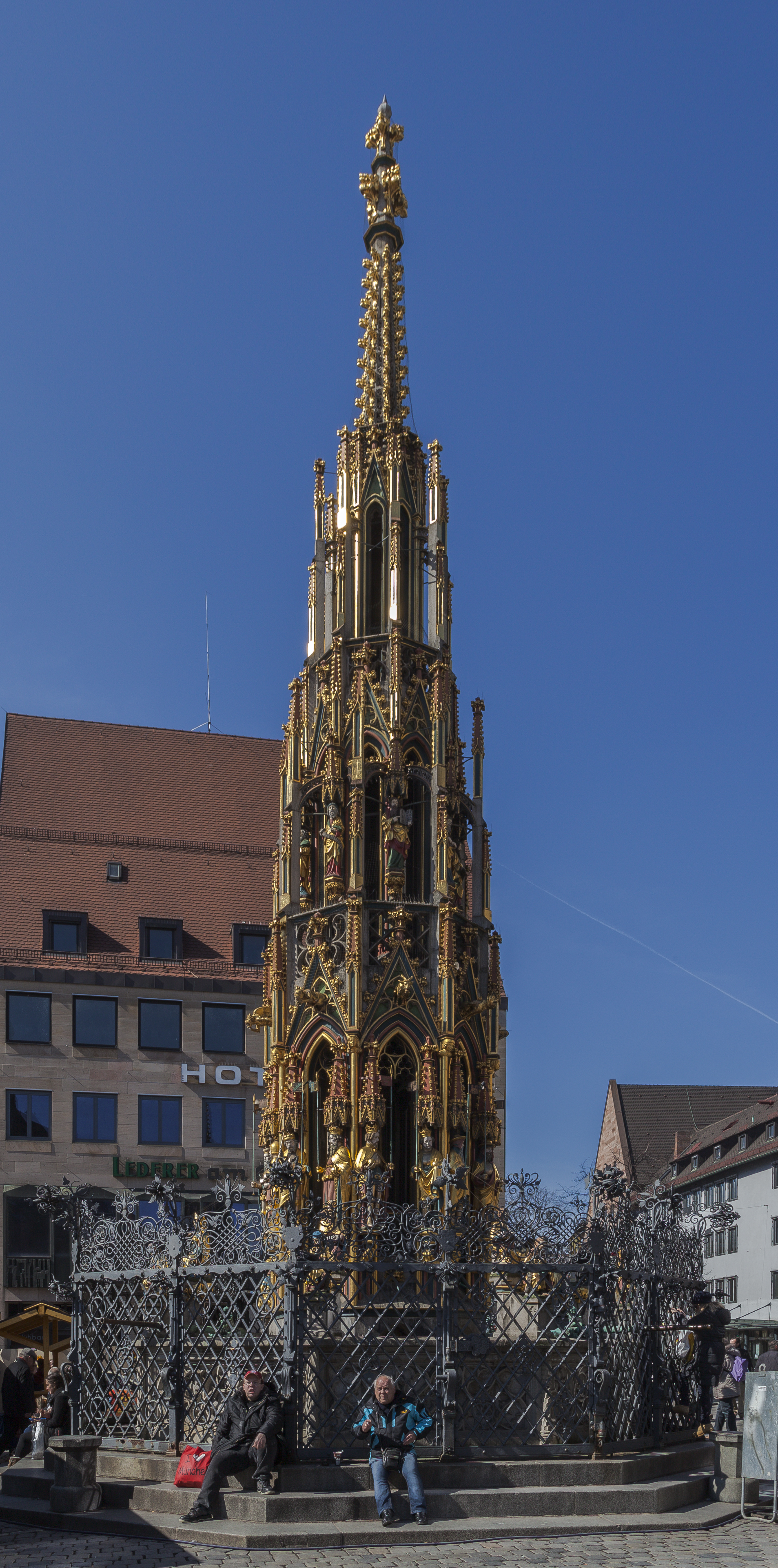 Schöner Brunnen, Nuremberg, Germany